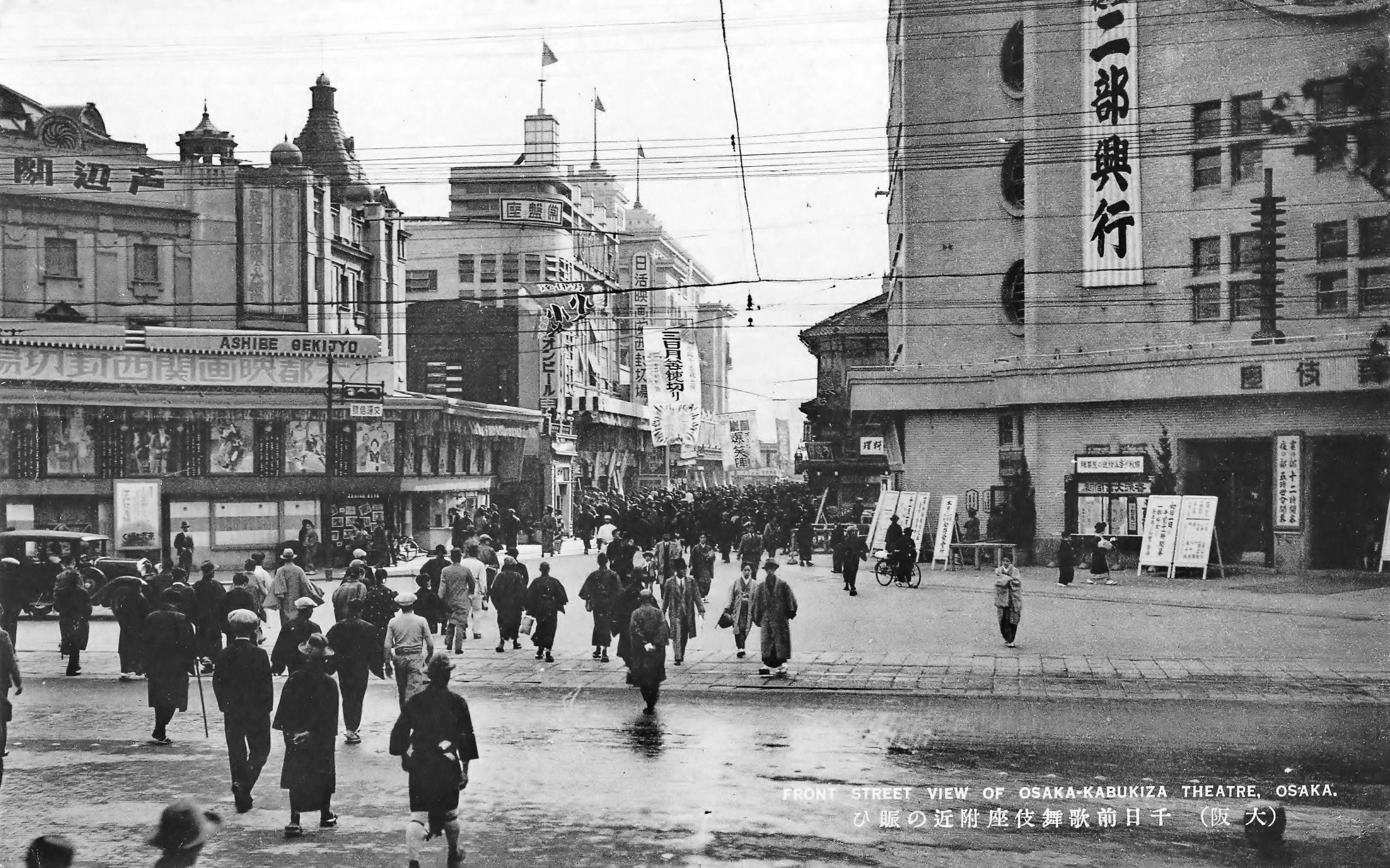 Street view of Sennichimae, Osaka, 1933. "Front street view of Osaka-Kabukiza theatre, Osaka"